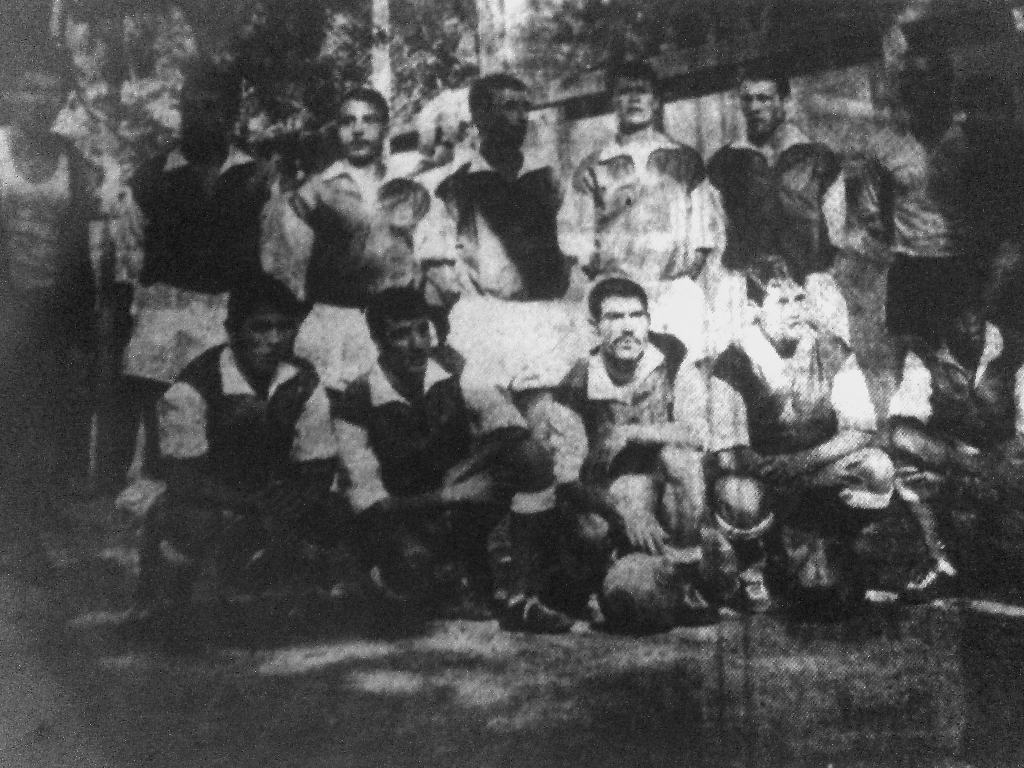 Picture of USM Annaba (named now Hamra Annaba), algerian team of soccer, winner in 1964 of second algerian football championship.